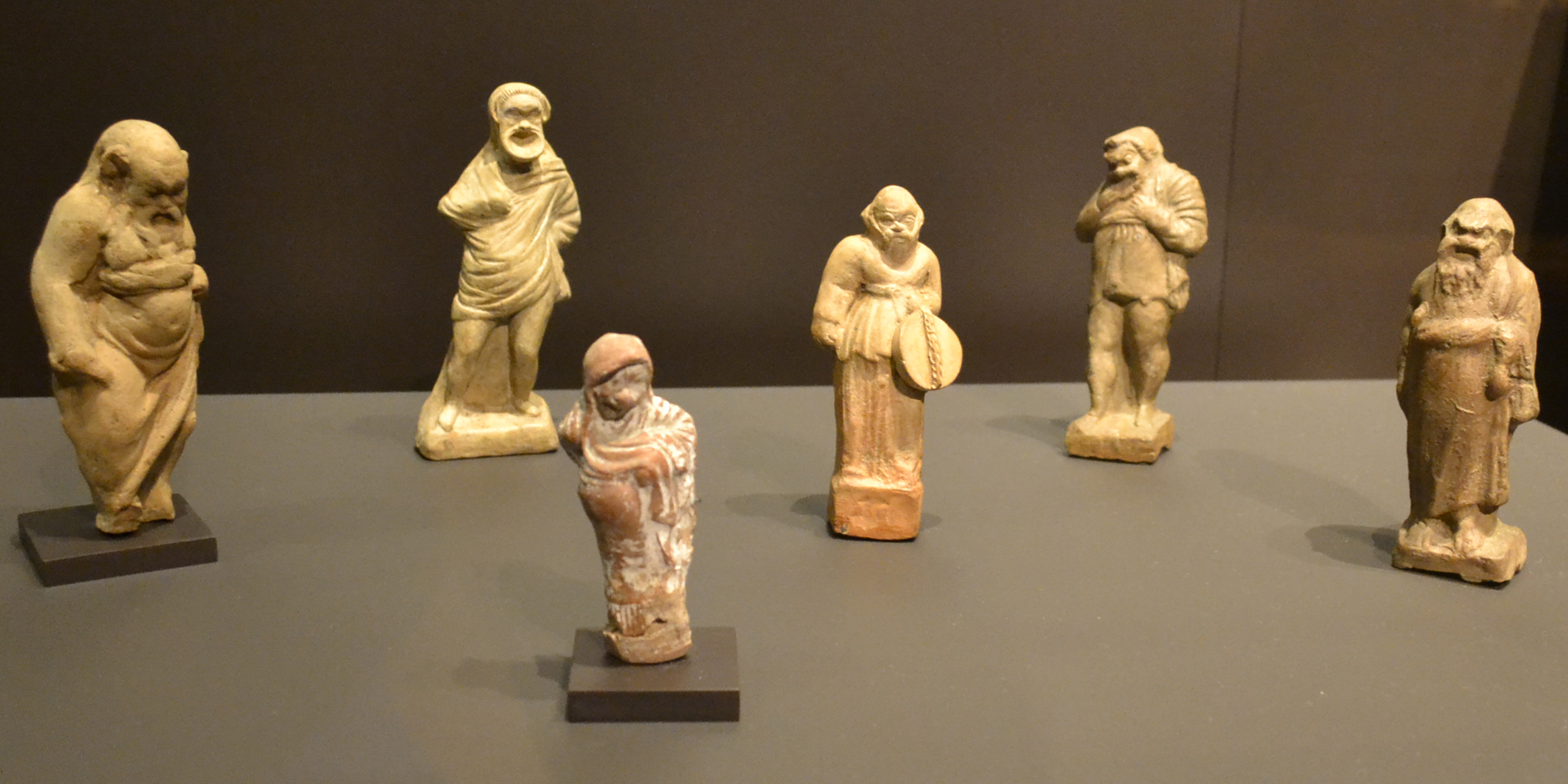 Ancient Greek terracotta figurines of actors. Mainland Greece. 360-340 BC